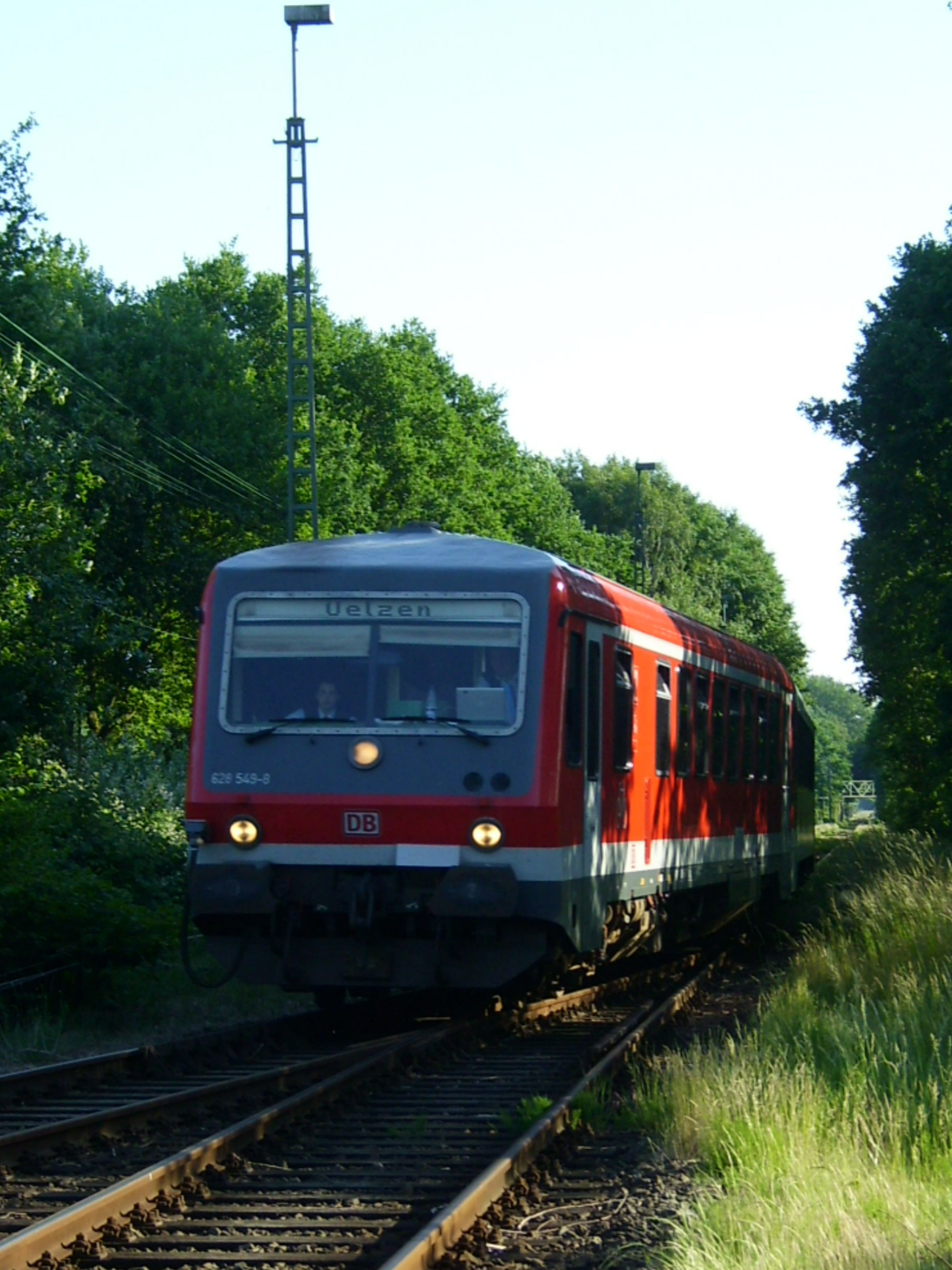 DB Class 628 multiple unit from Knesebeck in front of Wittingen, Lower Saxony, Germany.